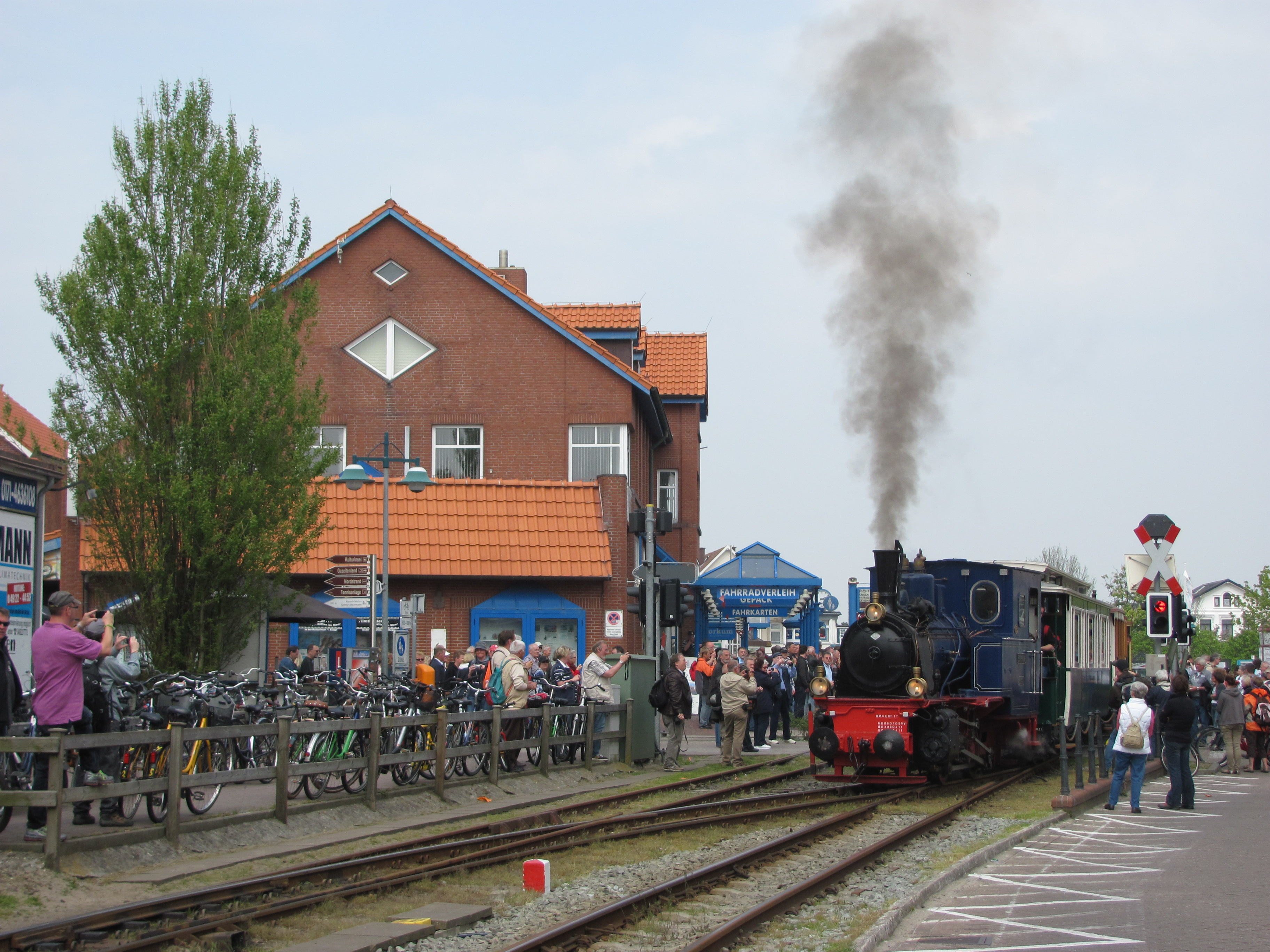 Steamtrain headed by "Borkum (III)" leaving Borkum station